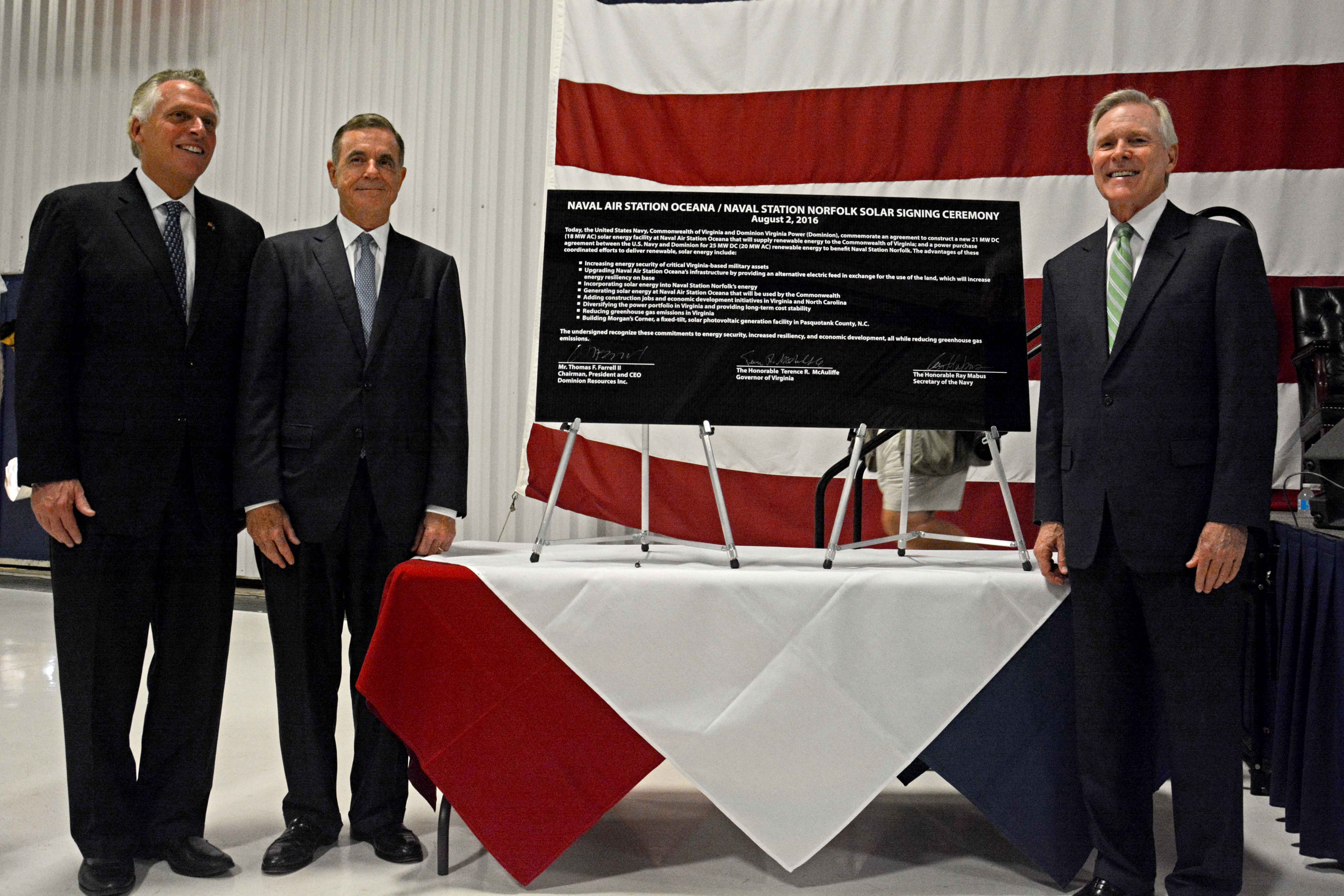 VIRGINIA BEACH, Va. (Aug. 2, 2016) From left, Governor of the Commonwealth of Virginia Terry McAuliffe, President and CEO of Dominion Resources Inc. (parent company of Dominion Virginia Power) Thomas F. Farrell II, and Secretary of the Navy Ray Mabus, pose for a photo after signing a ceremonial solar panel, commemorating the agreement to construct a 21-megawatt direct current solar energy facility at Naval Air Station (NAS) Oceana. (U.S. Navy photo by Mass Communication Specialist 2nd Class Alysia Hernandez/Released)160802-N-IS680-072 Join the conversation: navylive.dodlive.mil